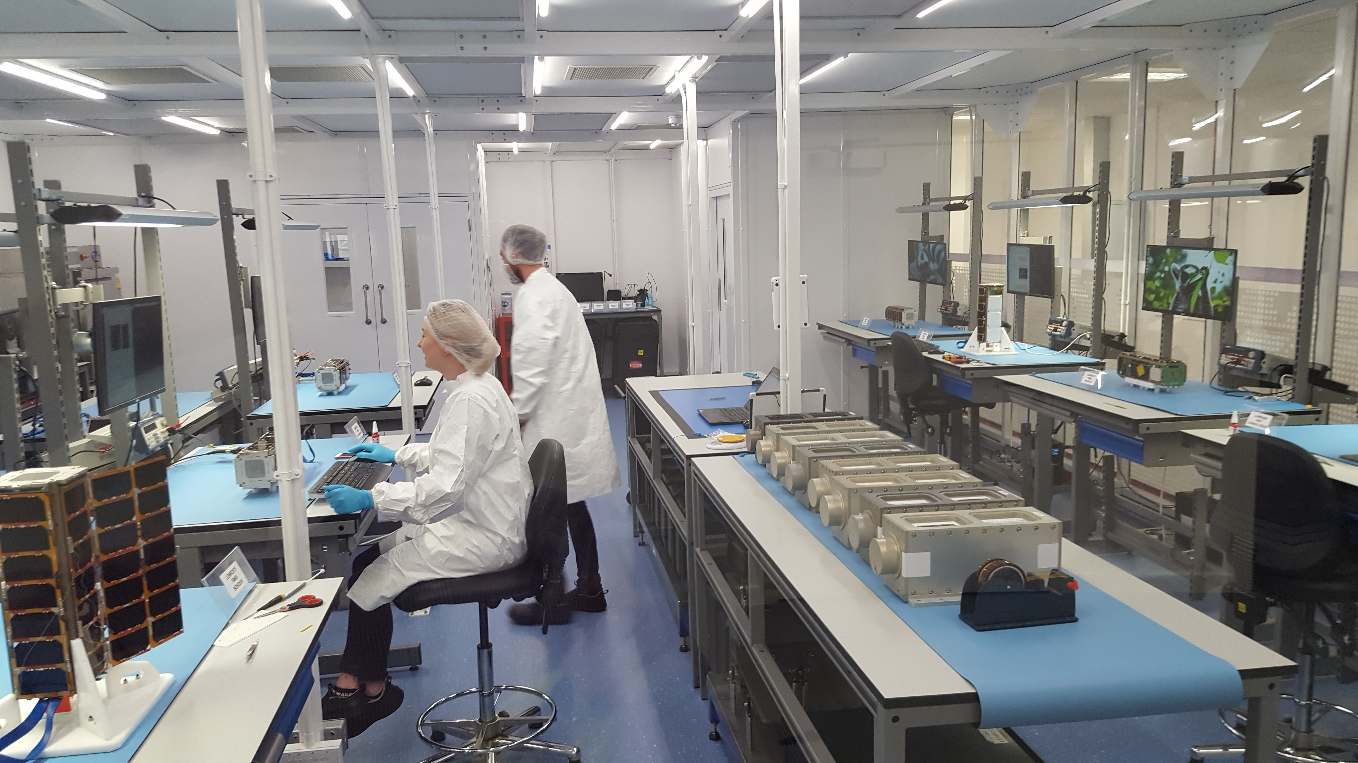 Technicians work on the latest batch of Spire Global Lemur satellites